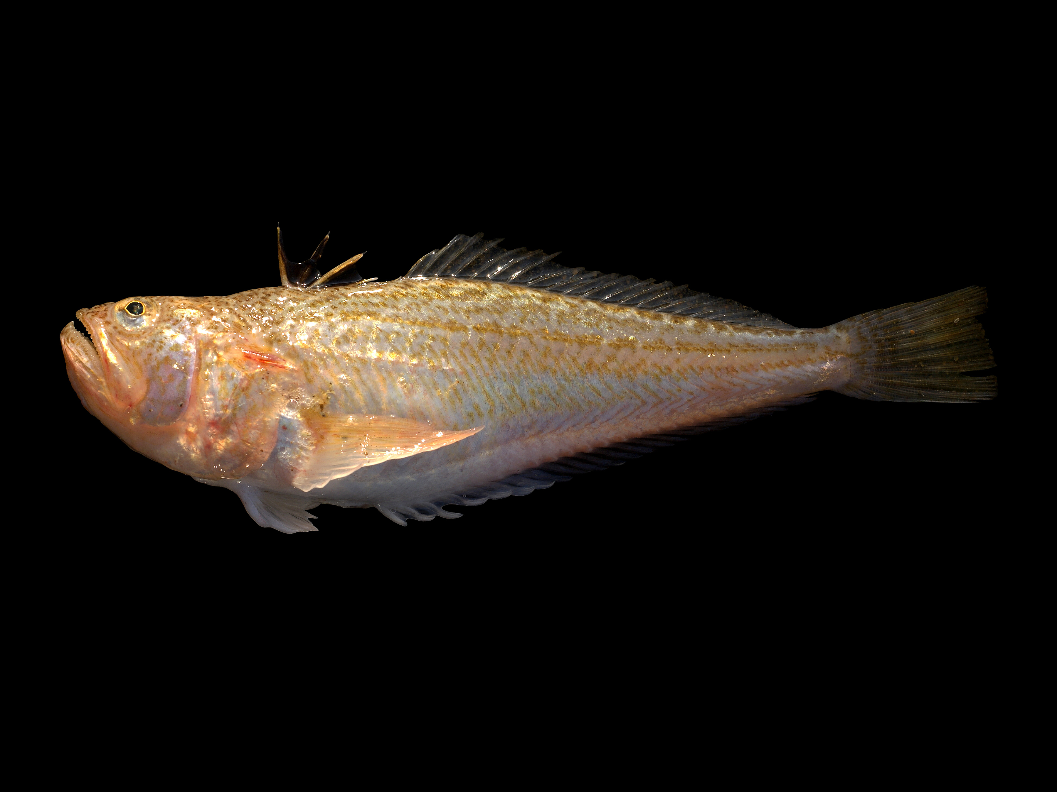 Lesser weever from the Fairy Bank in the Southern North Sea.Taken on board of the A962 Belgica.